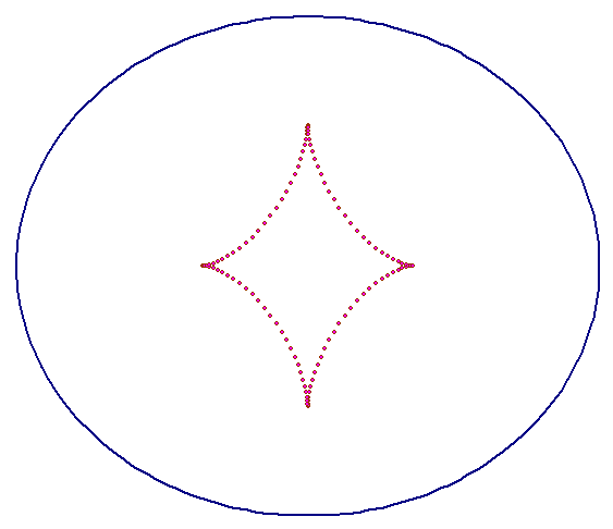 An ellipse (blue) with a collection of its centers of curvature (red) that outlines the evolute of the ellipse. The four extreme values of the radius of curvature correspond to four cusps in the evolute.